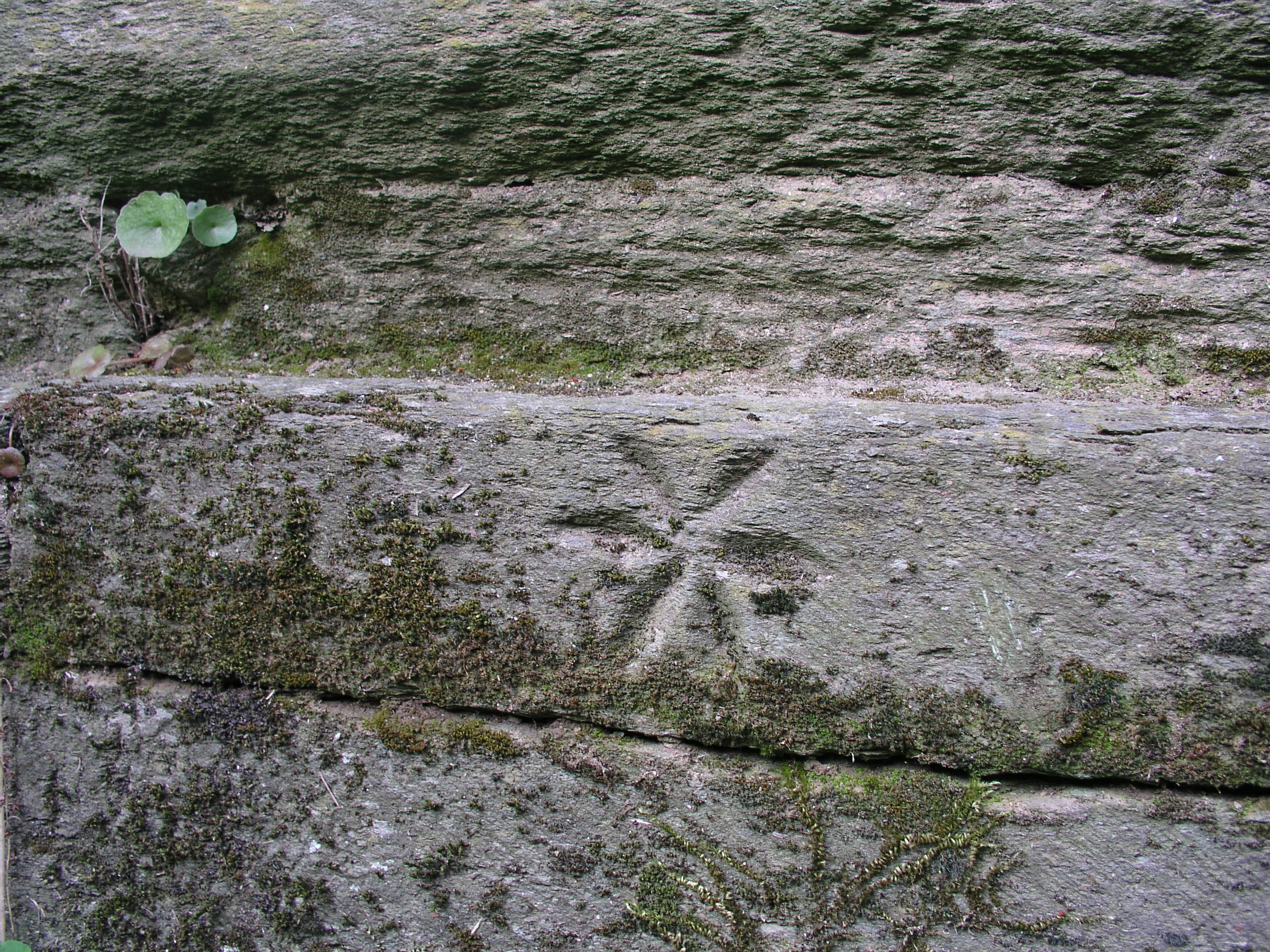 Iglesia San Juan de San Fiz, Corrulón, Villafranca de Bierzo, Spain. Mason mark